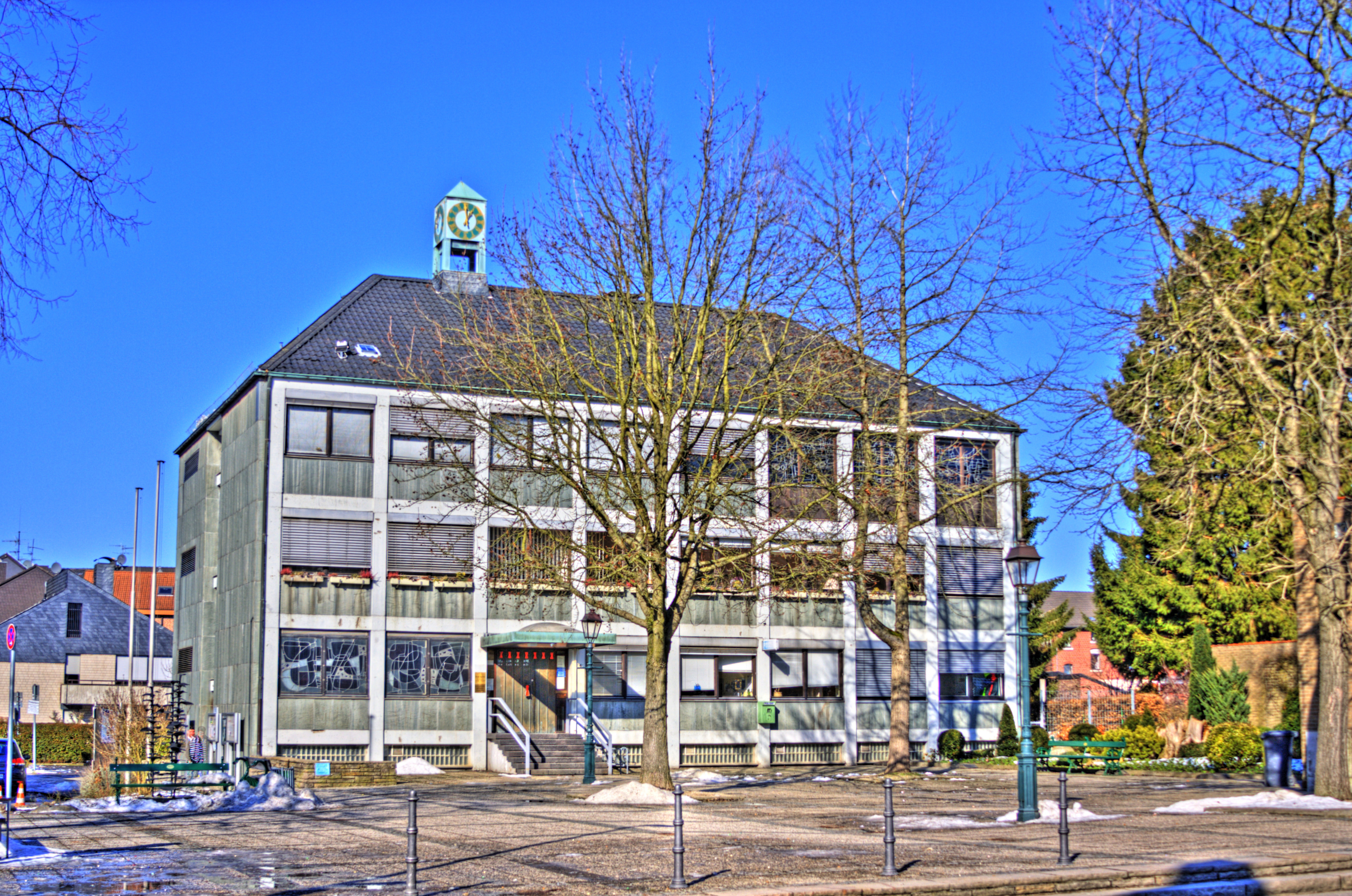 Before the town's incorporation by the city of Aachen in 1972, this building has been the town hall of Eilendorf. HDR made from three RAW-photos shot freehand and merged with Photomatix. Mantiuk layer blended in "Soft light" mode with Fattal layer. Final result rotated with Picasa.